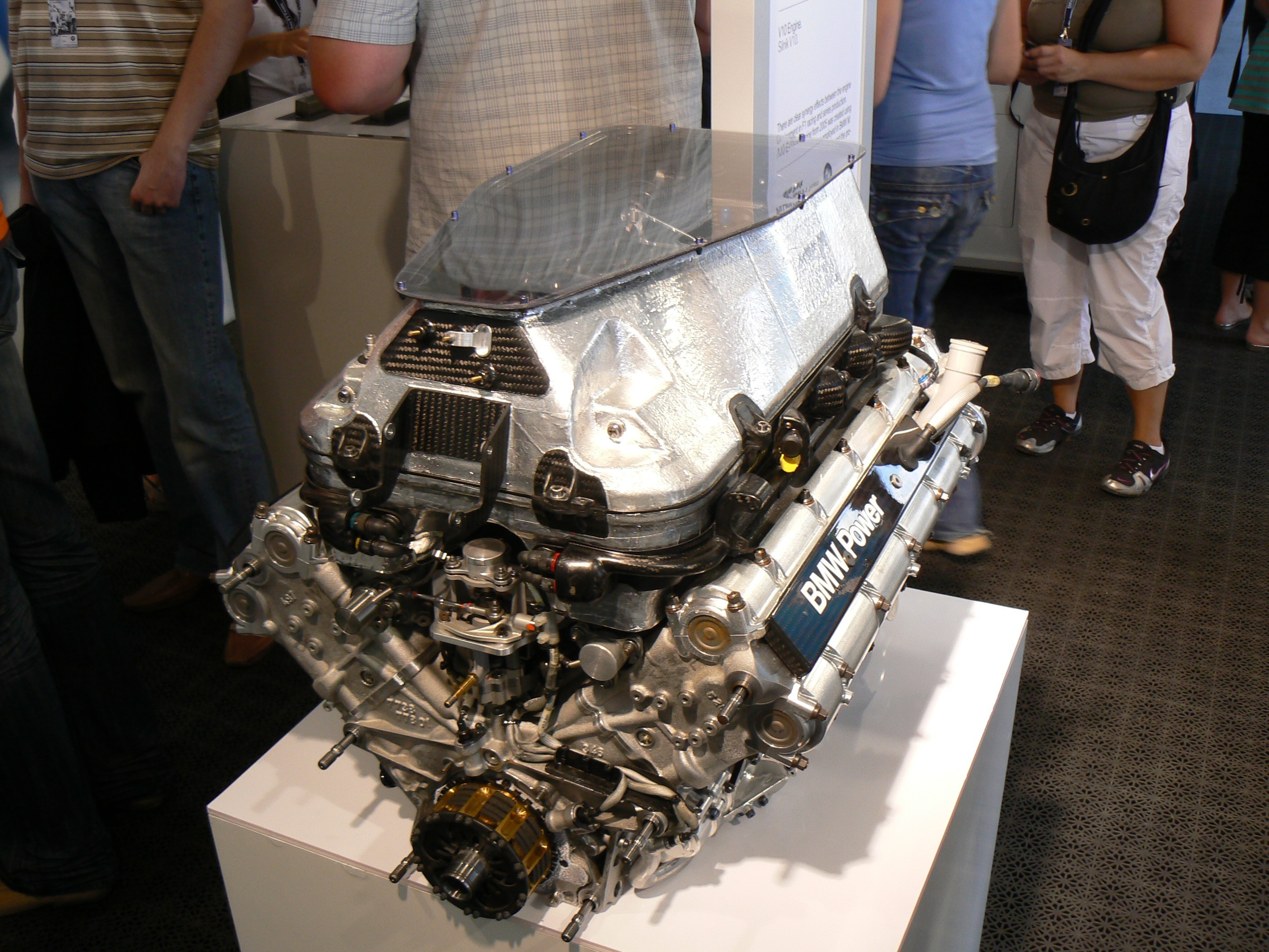 BMW V10 Engine, 2005. Used in Williams FW27. Photographed during BMW Sauber F1 Team Pit Lane Park in Warsaw, Poland.